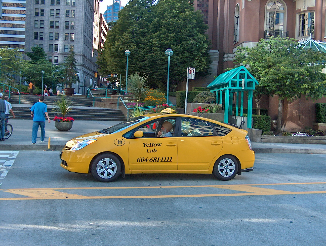 from Image:PriusTaxi.jpg. Prius taxi cab in Vancouver, BC, Canada